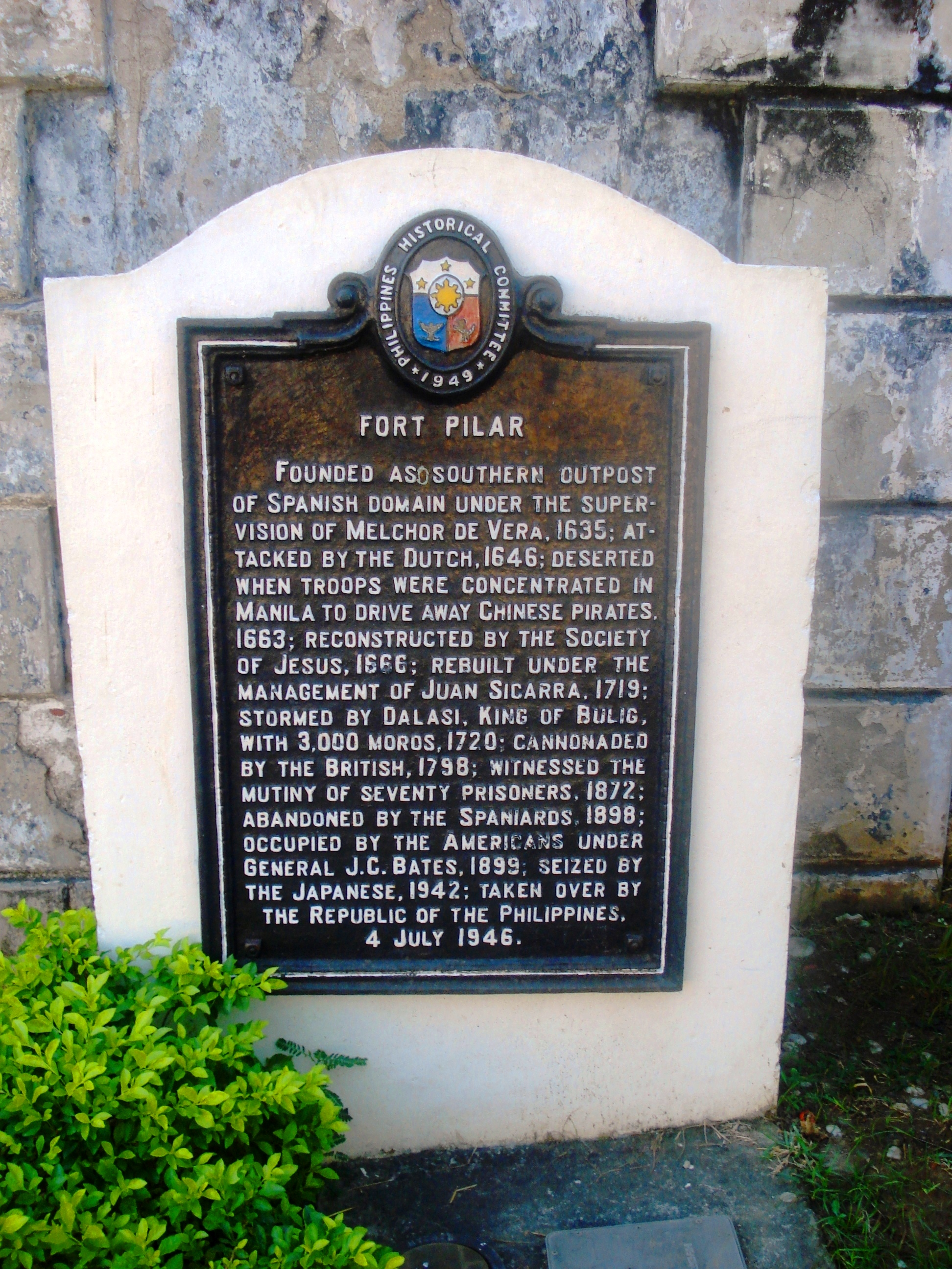 Fort Pilar bronze tablet